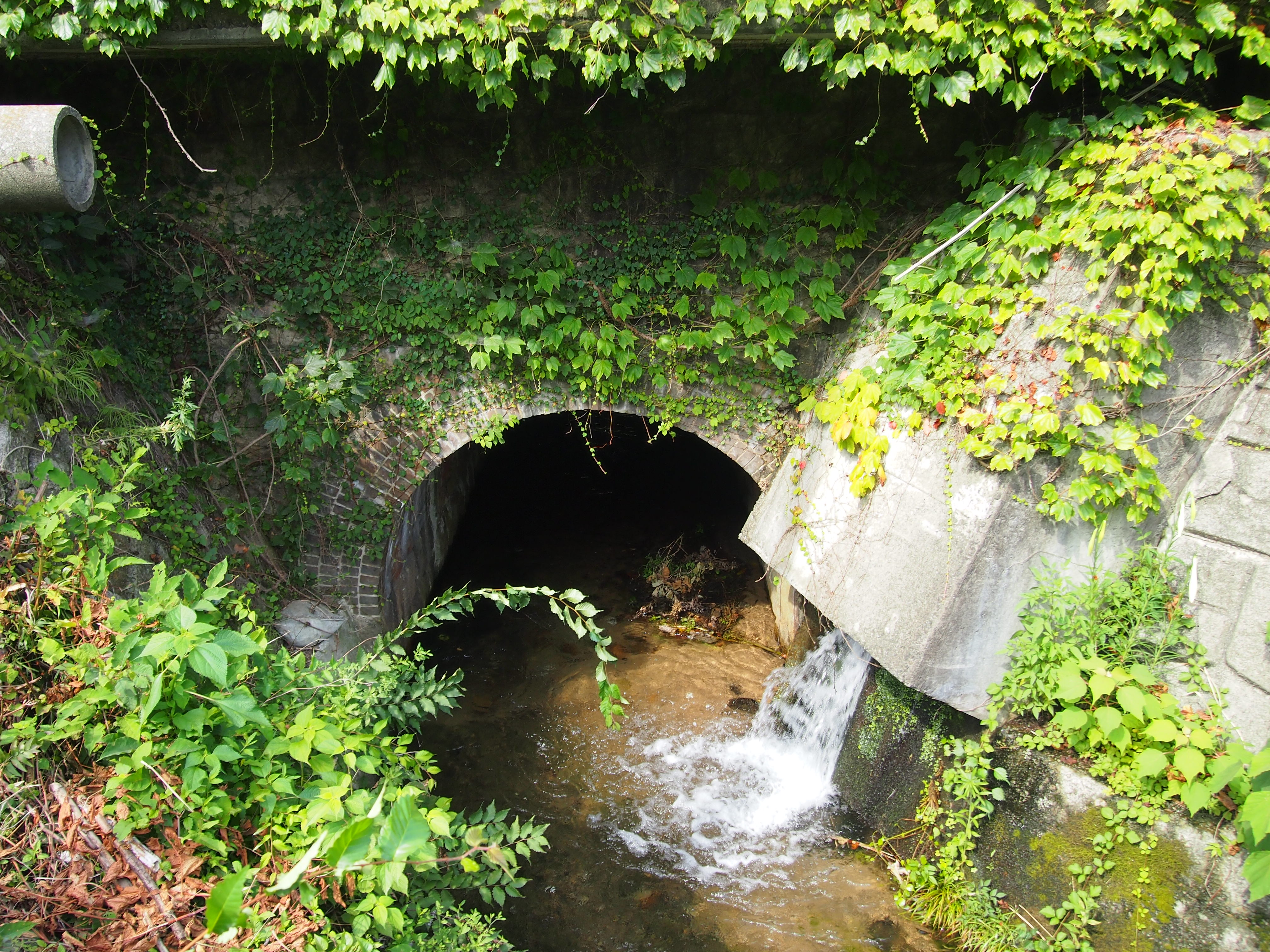 Brick remains of Yanagase Line in Hikida, Tsuruga, Fukui.